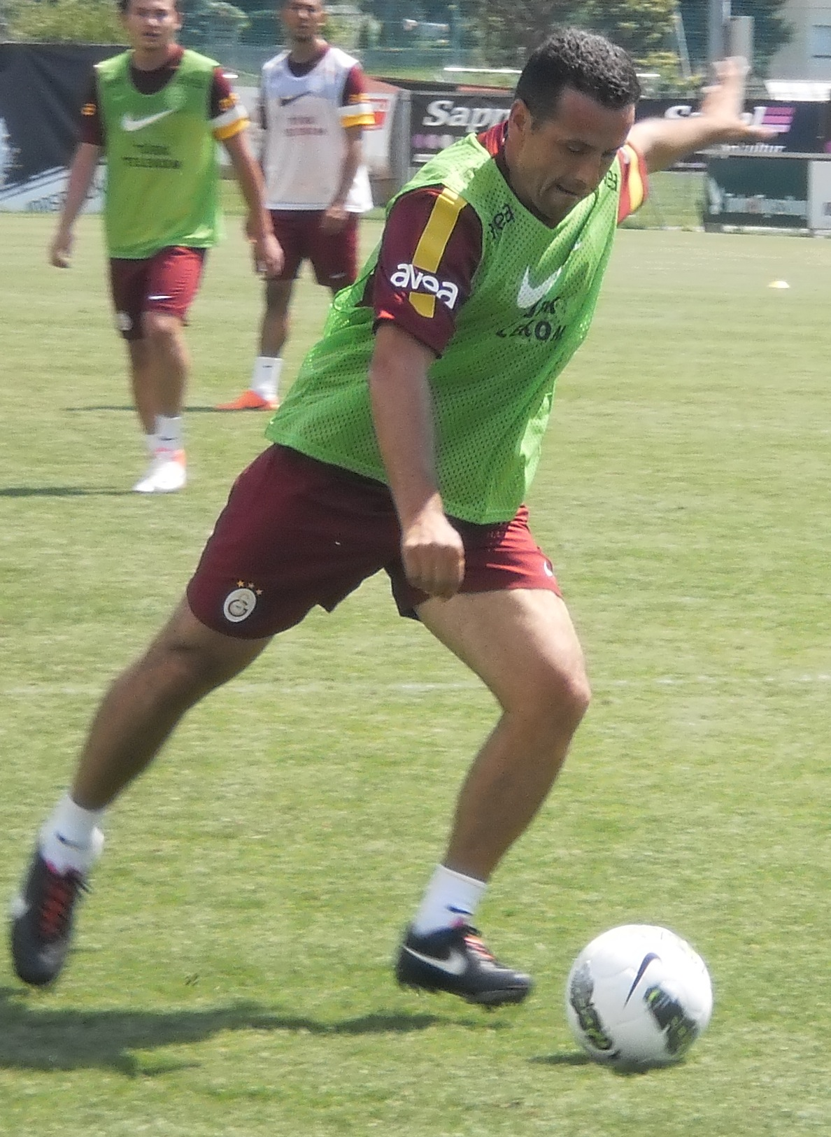 Saffet @ Wörgl